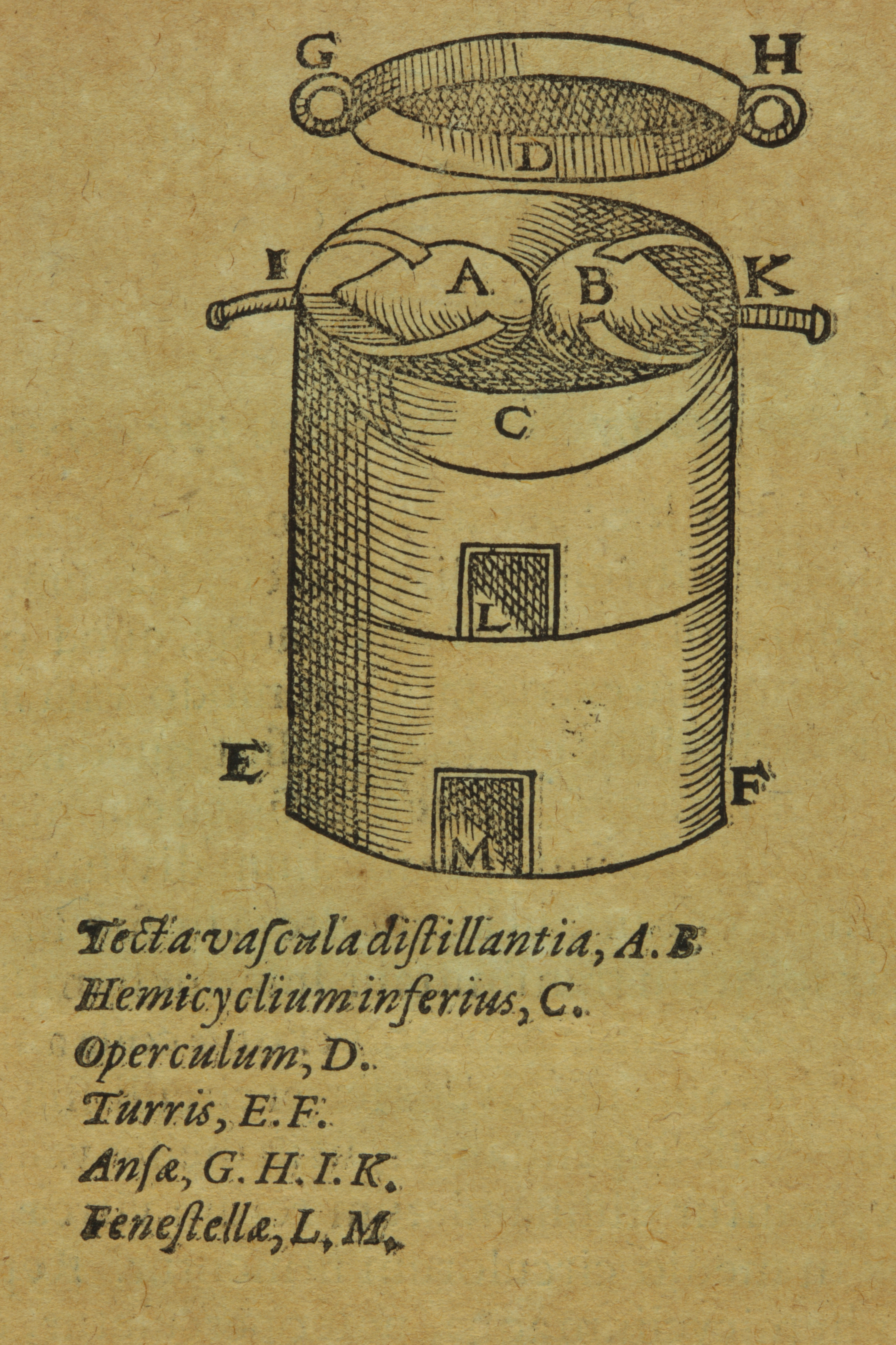 A still, shown on page 28 of De distillatione lib. IX : quibus certa methodo, multiplicique artificio, penitioribus naturae arcanis detectis, cu ius libet mixti in propria elementa resolutio, perfecte docetur by Giambattista della Porta, 1535?-1615. Romae : Ex Typographia Rev. Camerae Apostolicae, 1608.